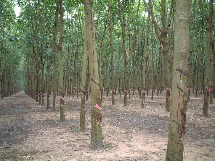 Rubber_tree,HANOI,VIETNAM